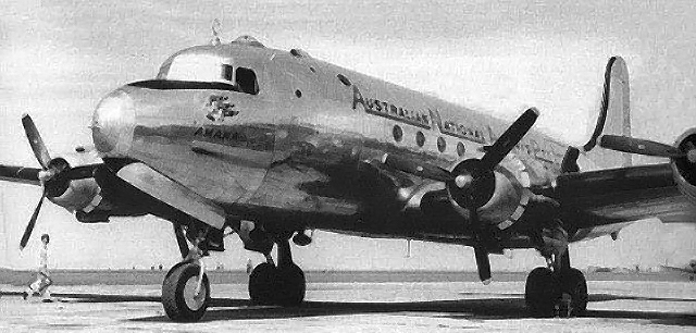 Photograph of Douglas Skymaster plane "Amana" which crashed near Perth, Western Australia on 26 June 1950, with the loss of all 29 persons onboard. See ANA Skymaster Amana crash